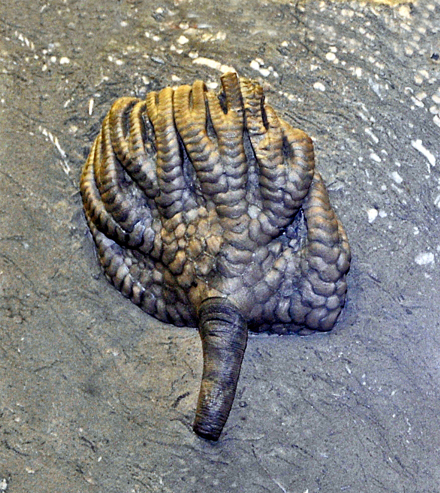 Fossil of Forbesiocrinus from Carboniferous of Indiana (U.S.A.), on display at the Museo Civico di Storia Naturale di Milano